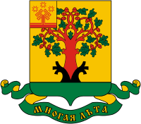 Tsivilsk (Chuvashia), coat of arms